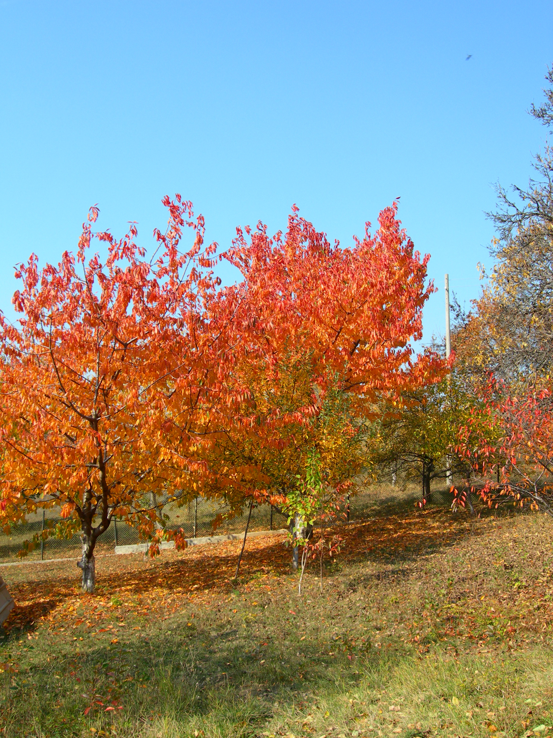 Cherry trees in autumn colors